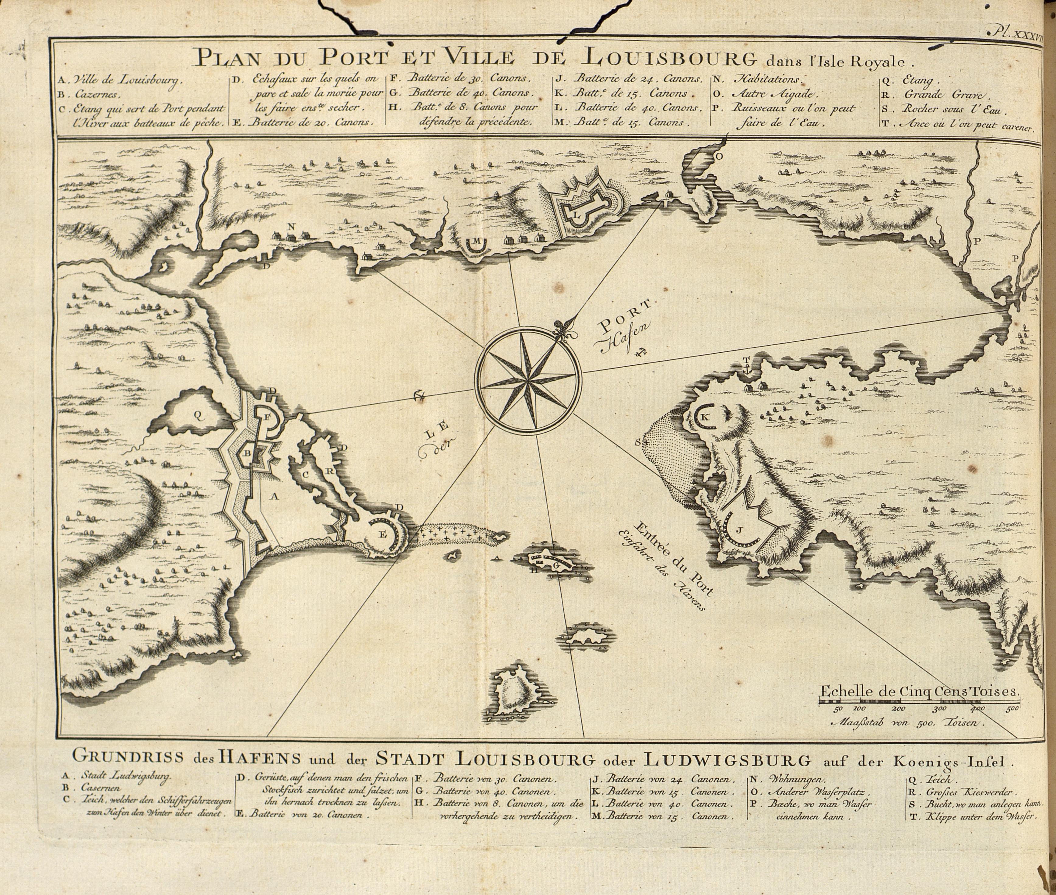 Plan of the fortress and town of Louisbourg in Nova Scotia (1752). Autor: Juan, Jorge, 1713-1773 Descripción bibliográfica: Voyage historique de l'Amerique Meridionale : fait par ordre du Roi d'Espagne / par Don Georges Juan ... , et par Don Antoine de Ulloa ... ; et qui contient une Histoire des Yncas du Perou et les Observations Astronomiques et Physiques, faites pour déterminer la figure et la Grandeur de la Terre. - tome second. - A Amsterdam ; et a Leipzig : chez Arksteét et Merkus, 1752. - [2], 316, [14], 309, [3] p., h. XXVI-XLVI grab. pleg., [8] h. de grab. ; 4º Materia: América - Descripciones y viajes - Obras anteriores a 1800 Materia: Incas - Historia - Obras anteriores a 1800 Notas: Autoridades de Jan Punt (FRBNF40346915) y Bernard Picart (FRBNF11919656) tomadas de OPALE . - Contiene: Histoire des Yncas du Perou.Observations astronomiques et physiques. - Palau, 125.473. - Sign.: 1, A-2R4, 2S1, [ast.]4, A-2Q4. - Port. a dos tintas, con escudo real de los Borbones cal.: "J. Punt. sculp." - 1 H. de grab. antes de la port..: "Picart inv. et Lelin 1733, Du Flos sculp." . - Grab. calc. en port.: "J. Punt. sculp." y en A1: "J. Schenk Sculp." . - Las h. de planchas calc. son planos de diversas islas y objetos relacionados con la observación astronómica . - 1 H. de grab. y grab. pleg. son cal. Autor: Ulloa, Antonio de, 1716-1795 Grabador: Punt, Jan, 1711-1779 Grabador: Ingram, J. Ilustrador: Gochin, C. N. Grabador: Bakker, Frans de, 1736-1765 Editor: Arkstée, Johann Caspar|eed Impresor:Merkus, Henricus Lugar de impresión: Holanda, Amsterdam Lugar de impresión: Alemania, Leipzig Localización: Libro completo